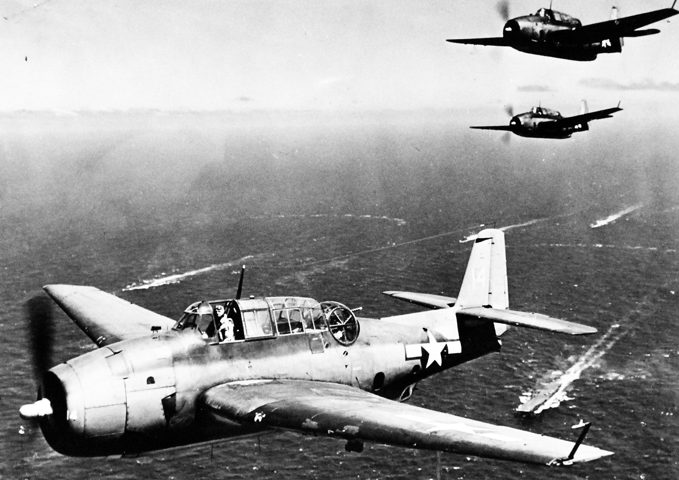 208-MO-Box-22-K-33325-FN: U.S. Navy Torpedo Bombers En Route to Pacific Battle Mission. Loaded with death-dealing weapons, U.S. Navy TBM Avengers circle over their carrier in the Pacific en-route to a battle mission against the Japanese. Planes of this type have been participating in U.S. naval actions which have driven enemy shipping back into home waters, July 30, 1944. Official U.S. Navy Photograph, now in the Office of War Information Collections at the National Archives. (2018/04/25).